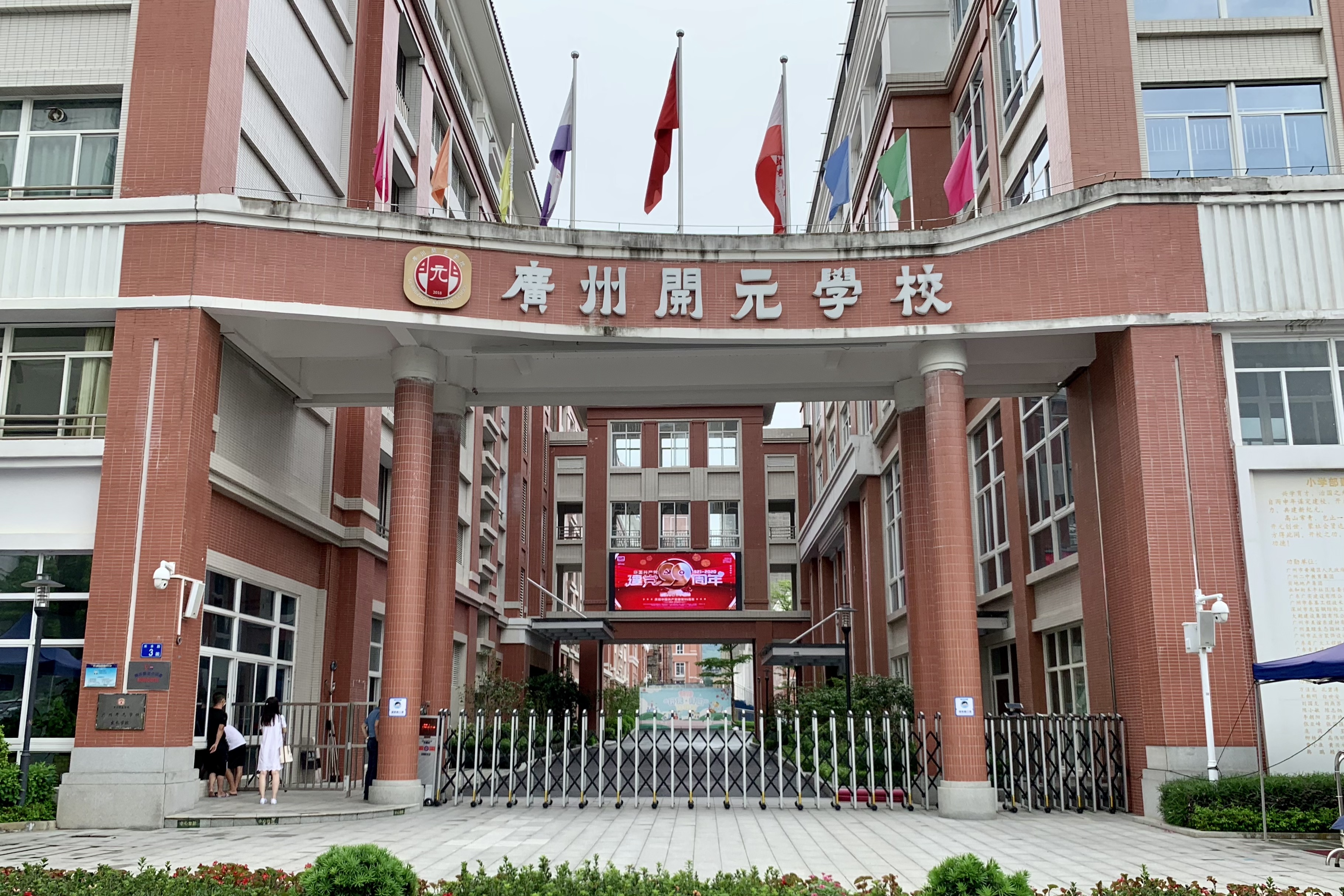 Main gate of Guangzhou Huangpu Kaiyuan School.